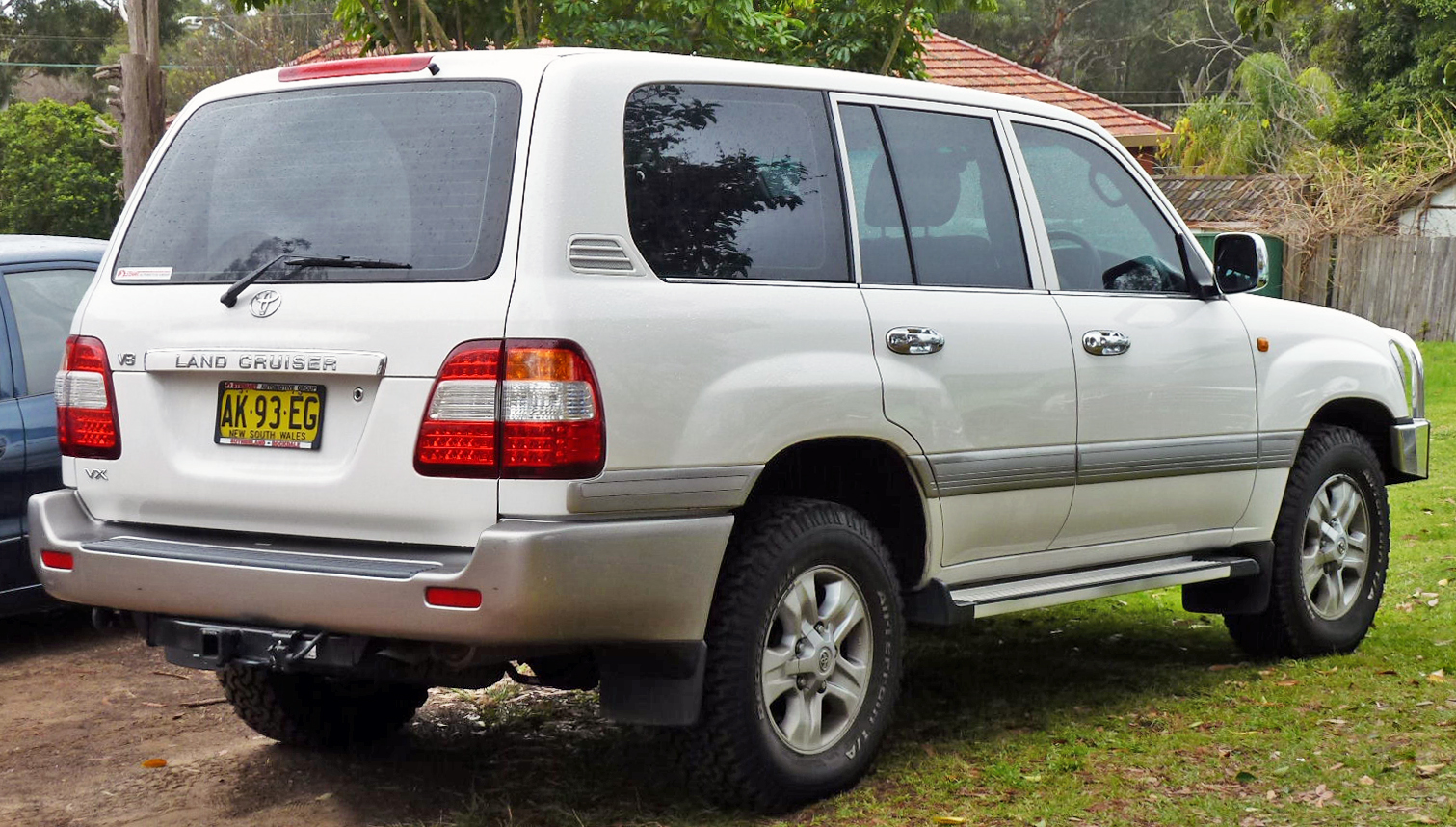 2006 Toyota Land Cruiser (UZJ100R) VX wagon. Photographed in Gymea, New South Wales, Australia.